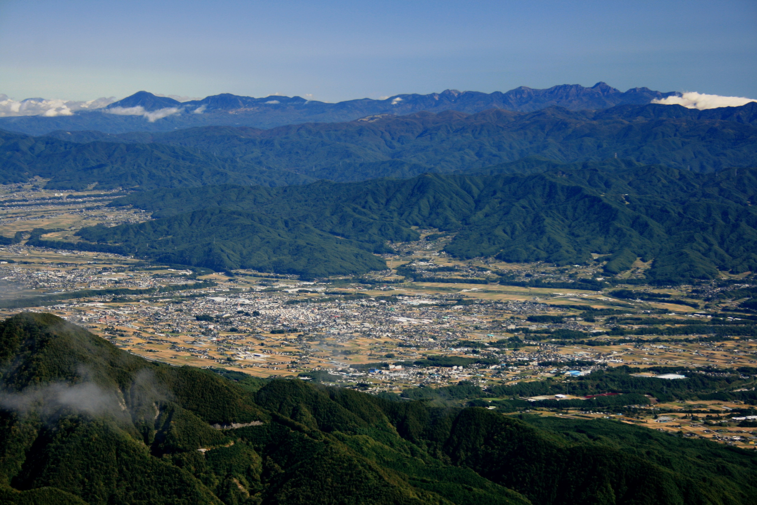 Komagane, Nagano and Southern Yatsugatake Volcanic Group seen from Mount Eboshi in Kiso Mountains, Nagano Prefecture, Japan.